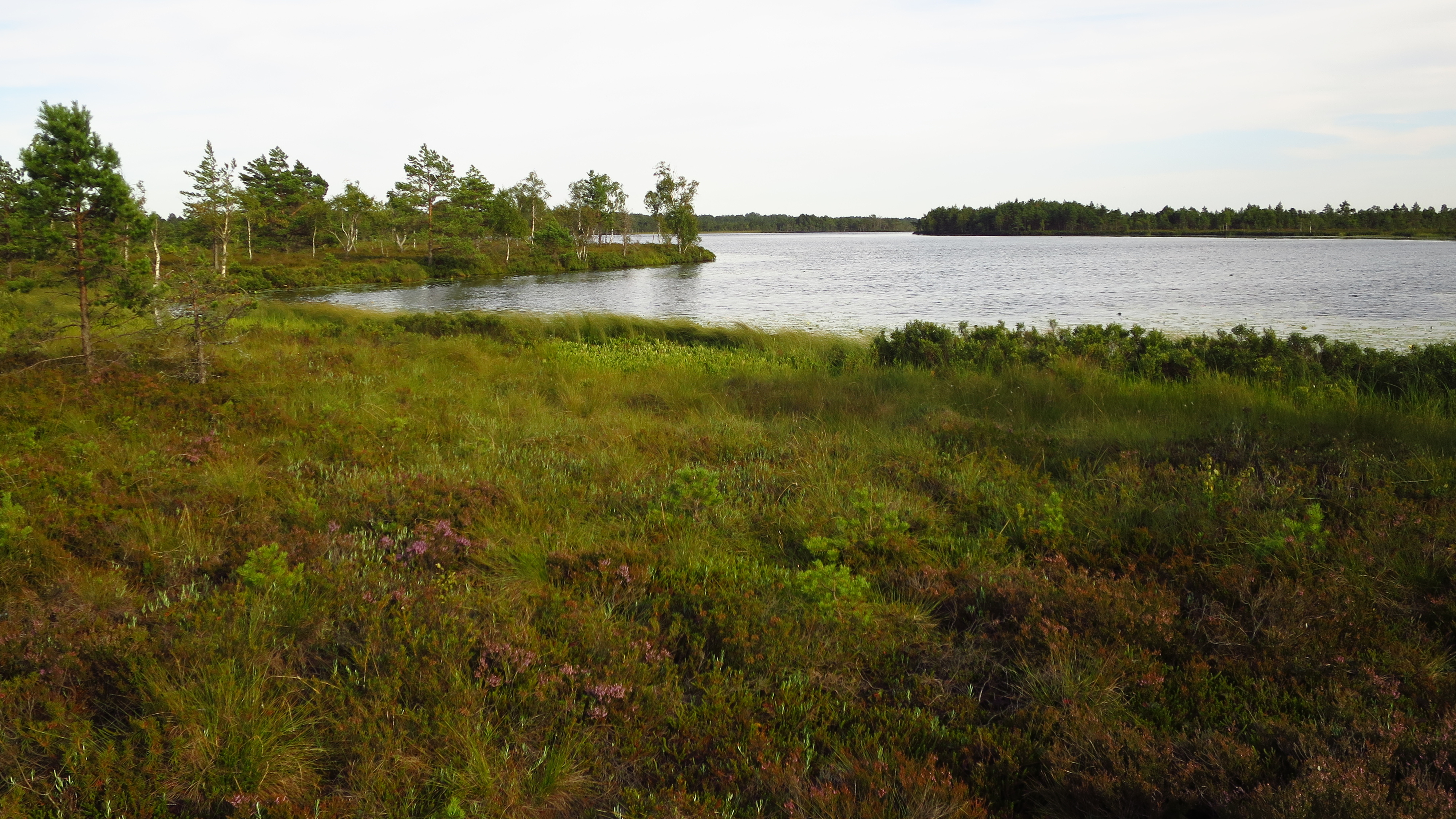 Koigi Pikkjärv Koigi MKAl